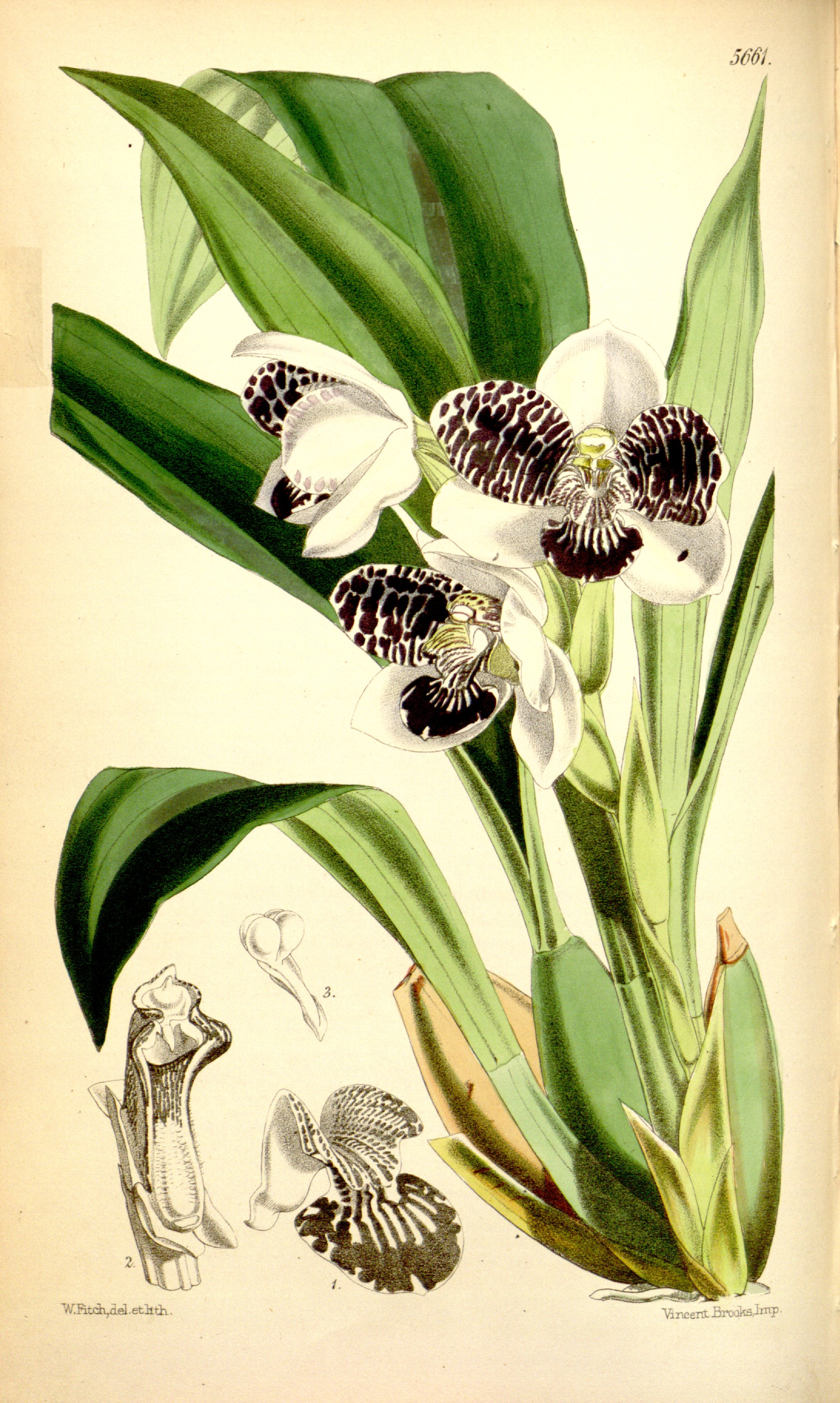 Illustration of Pabstia jugosa (as syn. Colax jugosus)